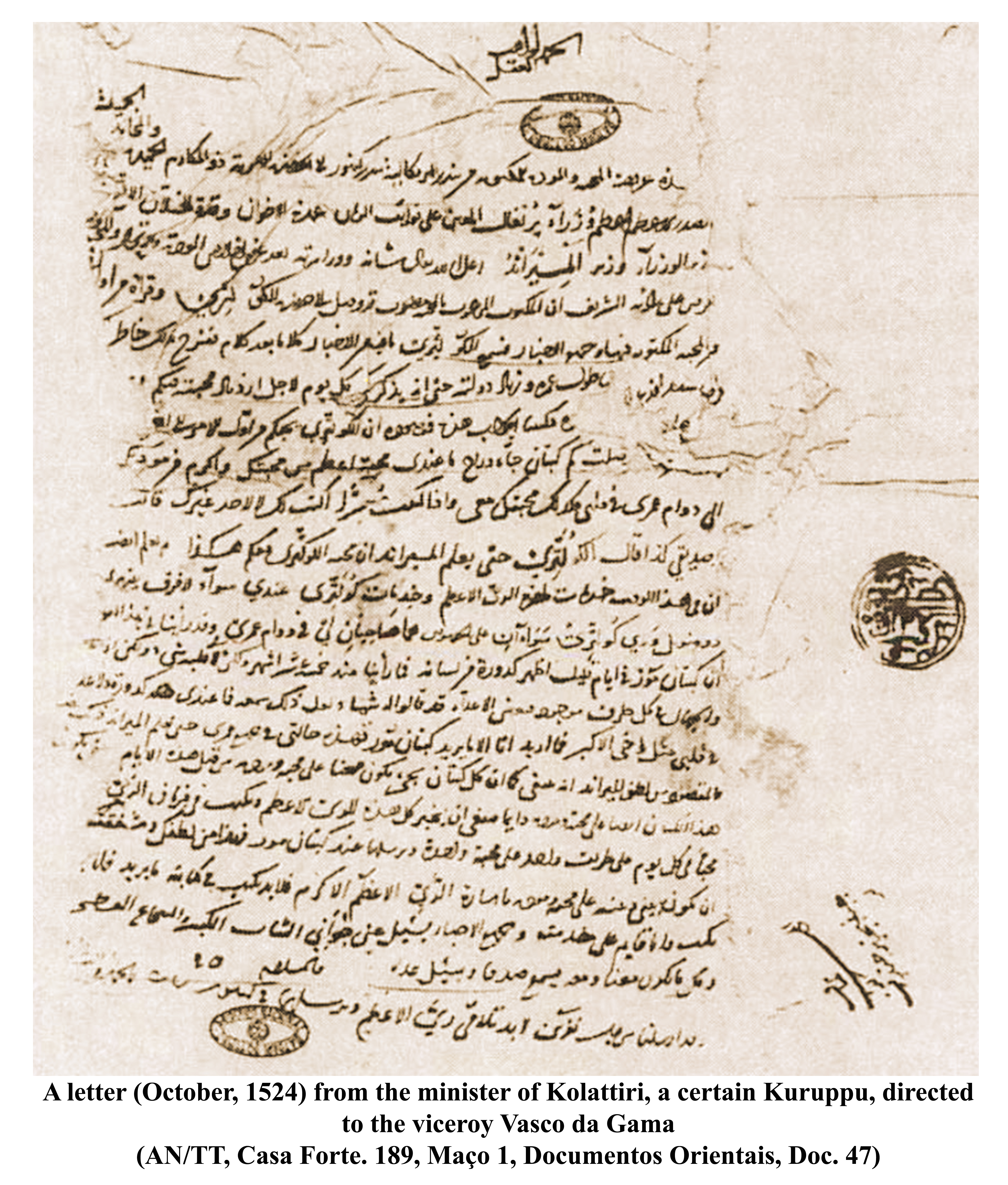 An Arabic letter sent by an Indian minister to Vasco da Gama (1524)